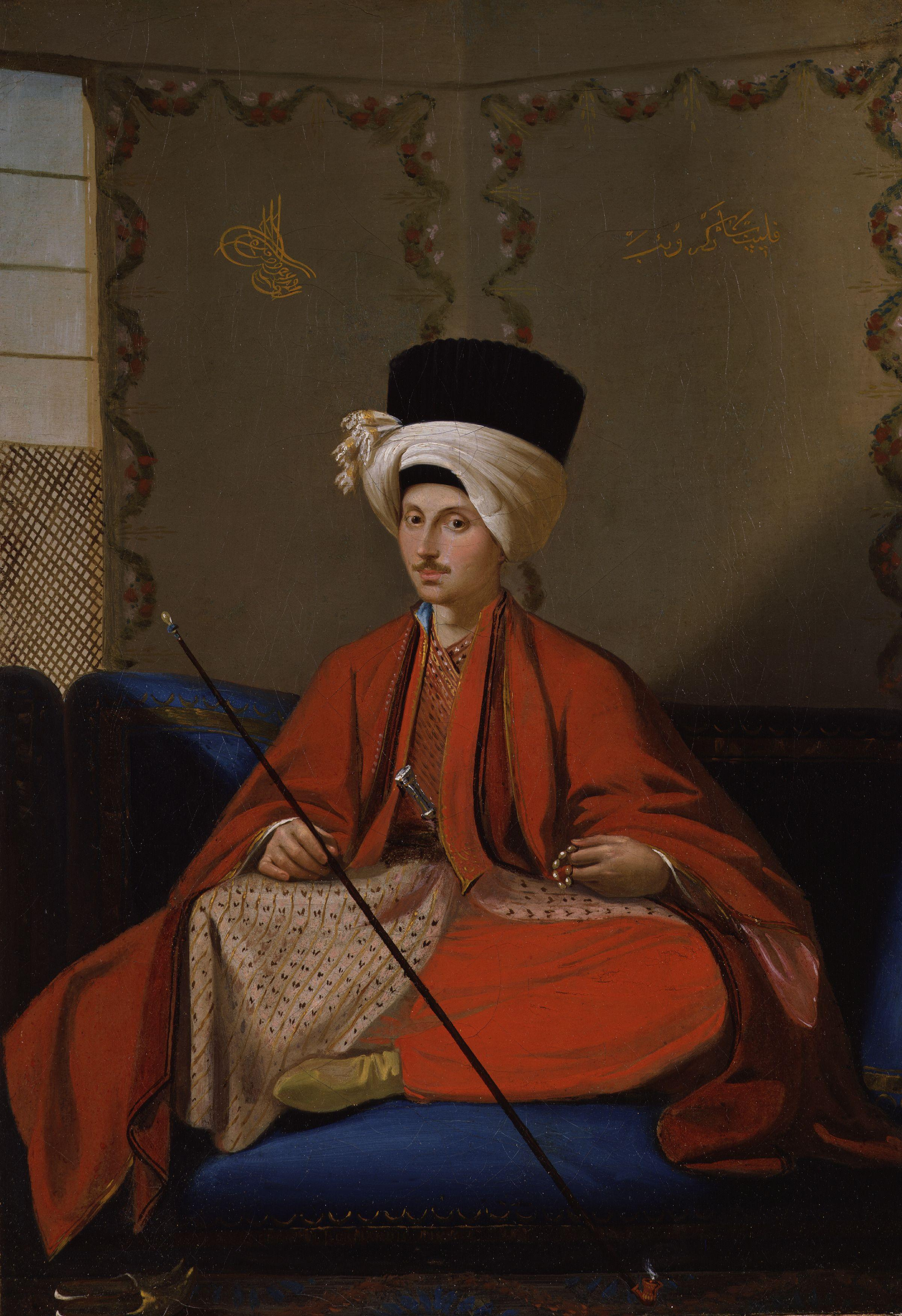 Philip Barker Webb, by Lalogero di Bernadis (floruit 1820). All images in this batch have a known author with unknown death date, but according to the NPG's website the author was floruit (known to be active) prior to 1859, and so is reasonably presumed dead by 1939.